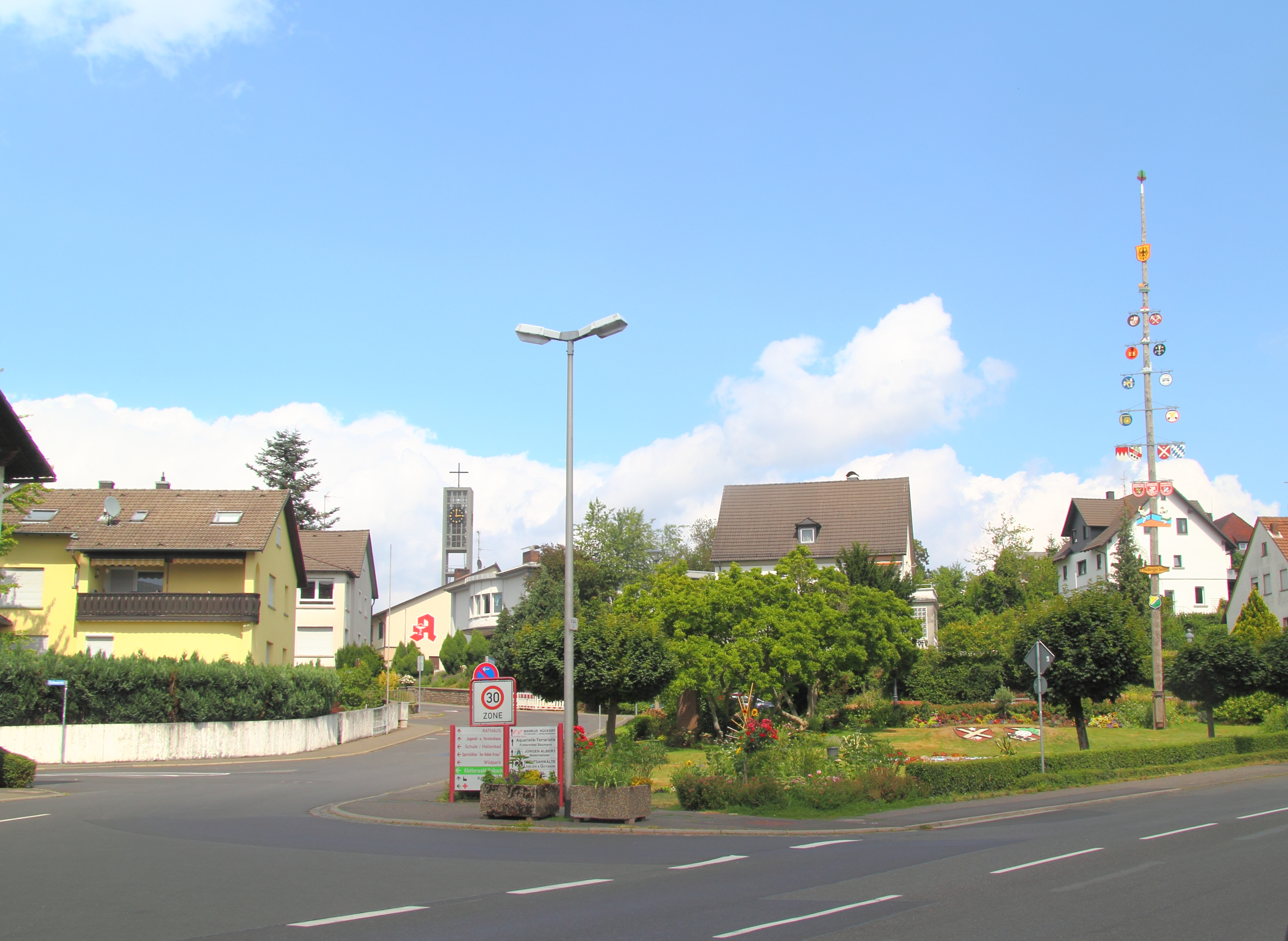 Bavaria, Germany: Haibach, Lower Franconia, community in the Aschaffenburg district